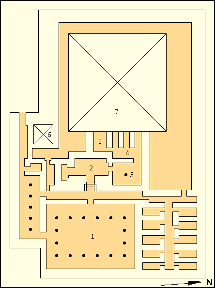 Layout of Setibhor's complex. In order: 1) Colonnaded courtyard; 2) Five niche statue chapel; 3) Antichambre carrée; 4) Storerooms; 5) Offering hall; 6) Cult pyramid; 7) Main pyramid. Based on Lehner, Mark (2008) The Complete Pyramids New York: Thames & Hudson. ISBN 978-0-500-28547-3 p. 153.